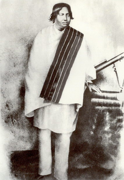 Rainivoninahitriniony (Raharo), Prime Minister of Madagascar (1852 to 1865) and second husband to Queen Rasoherina